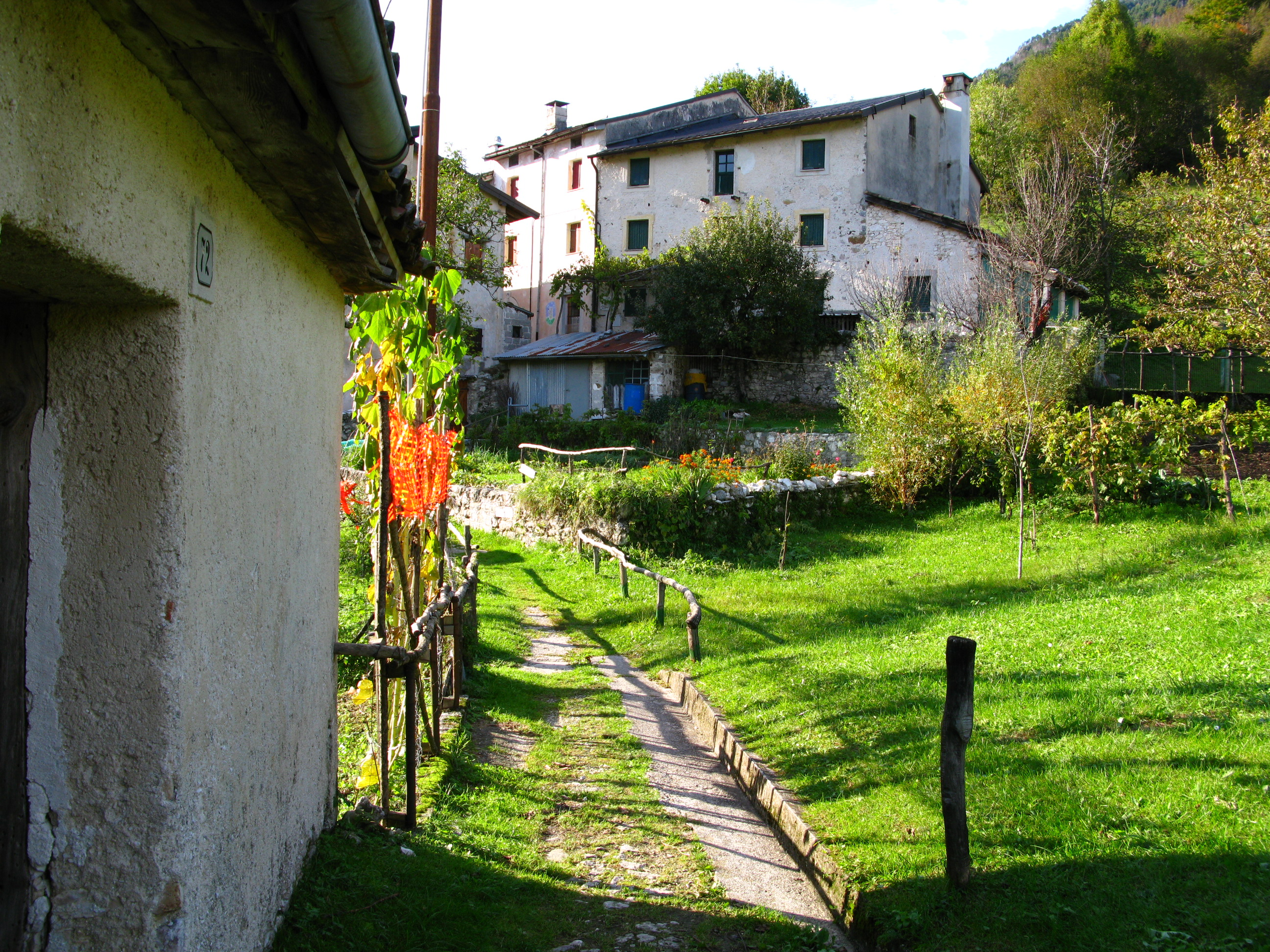 Stavoli a nearly abandoned villages near Moggio Udinese / Friuli-Venezia Giulia / Italy / EU.